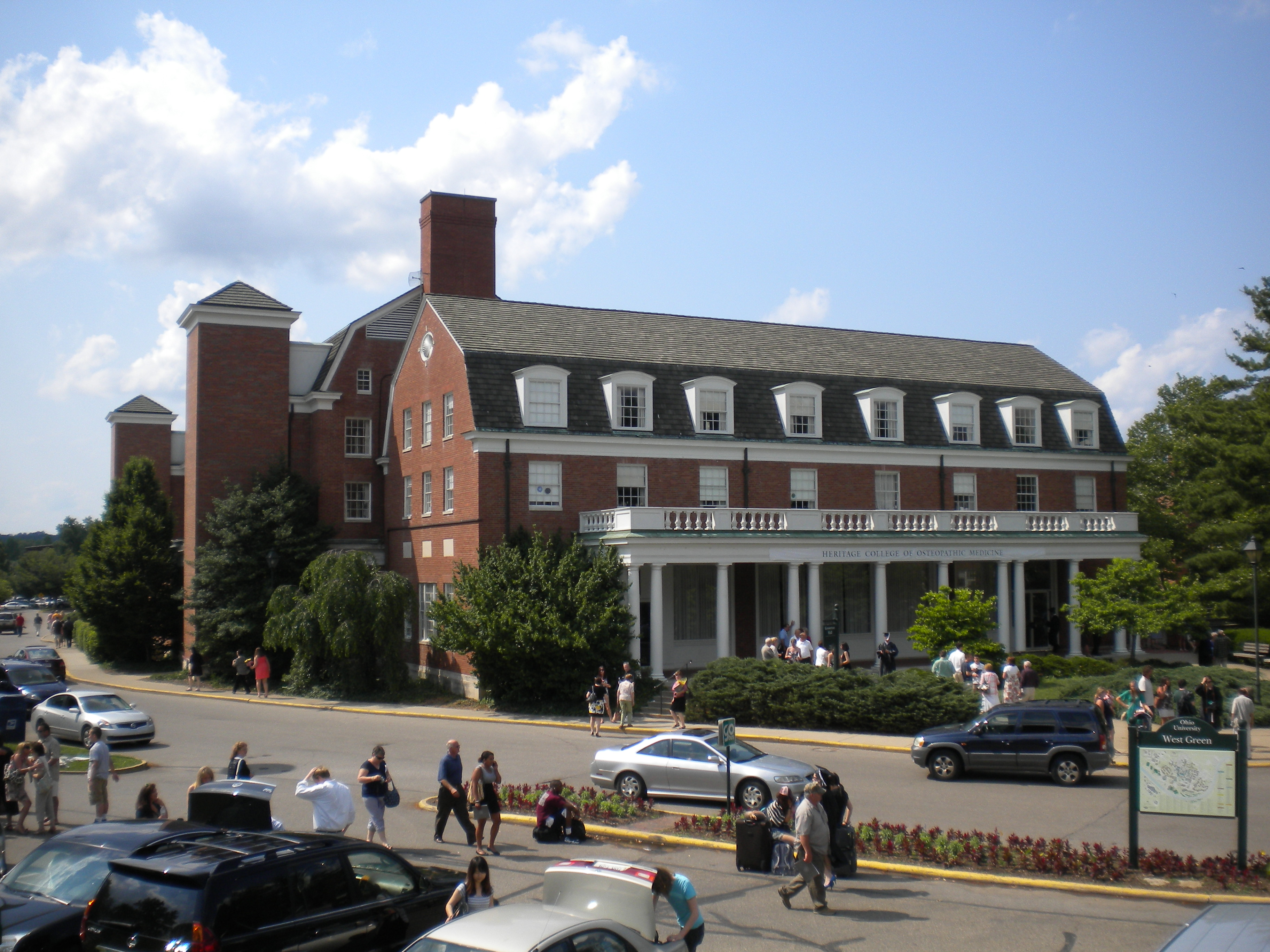 Heritage College of Osteopathic Medicine